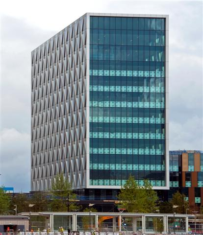 The University of Salford has today unveiled the list of undergraduate and postgraduate courses which will be taught at MediaCityUK from next academic year (2011/12). If you want to find out more about MediaCityUK you can follow us on Twitter and Facebook and